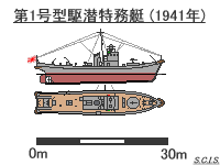 Figure of IJN No.1 class auxiliary submarine chaser.